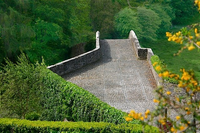 Brig o' Doon Bridge 2007 View of the Brig o' Doon Bridge from the Memorial Gardens